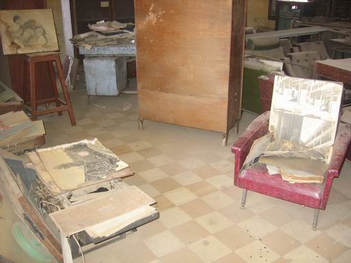 Own work taken in the Tuol Sleng Museum with permission from the Museum administration on March 13, 2006. Donated to the Wikipedia system and it can be considered wikipedian document. Albeiro Rodas, Cambodia, July 2006.